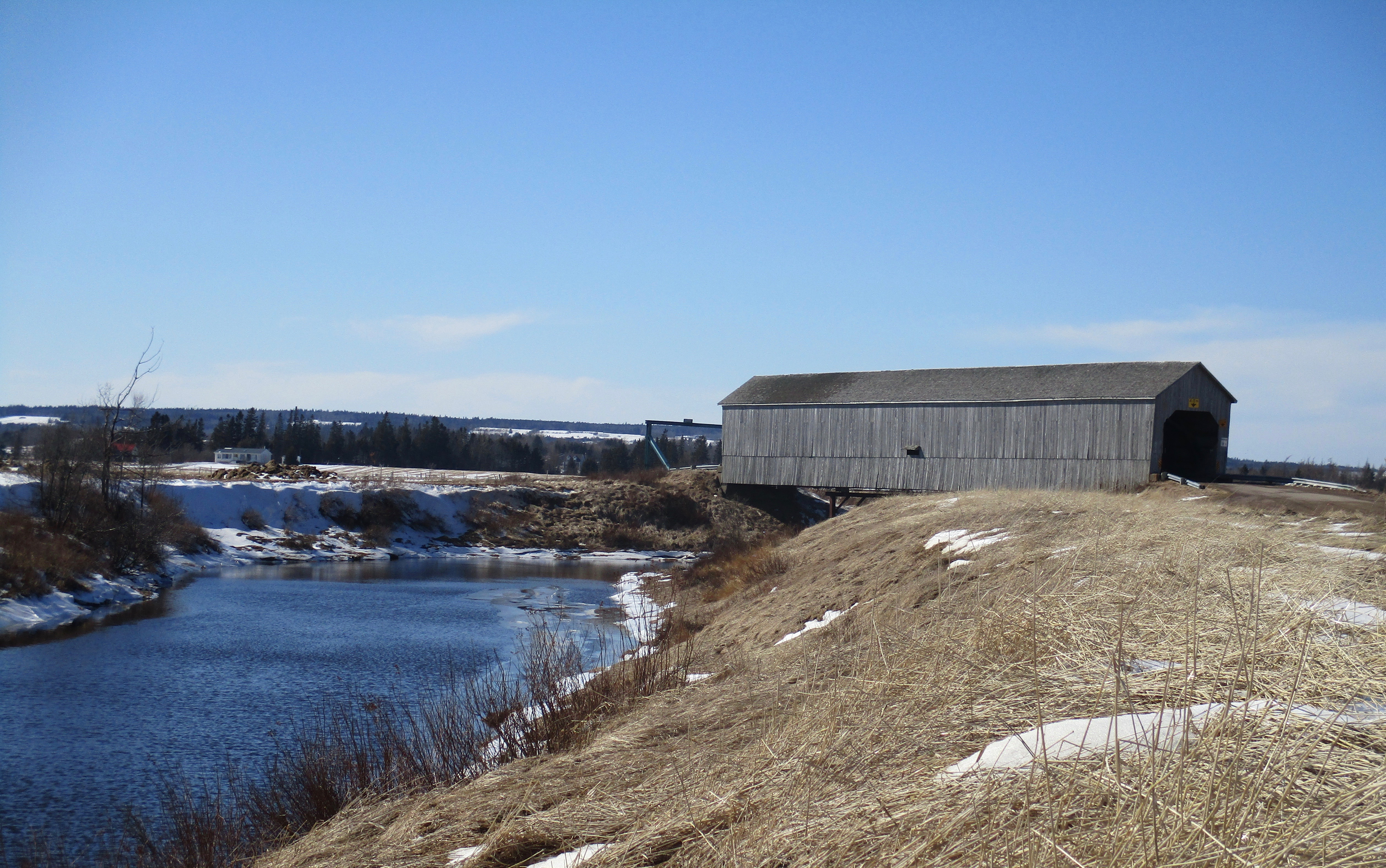 This photo shows a covered bridge crossing the Tantramar River on the High Marsh Road near the town of Sackville, New Brunswick. The bridge was referred to in poems by Douglas Lochhead.